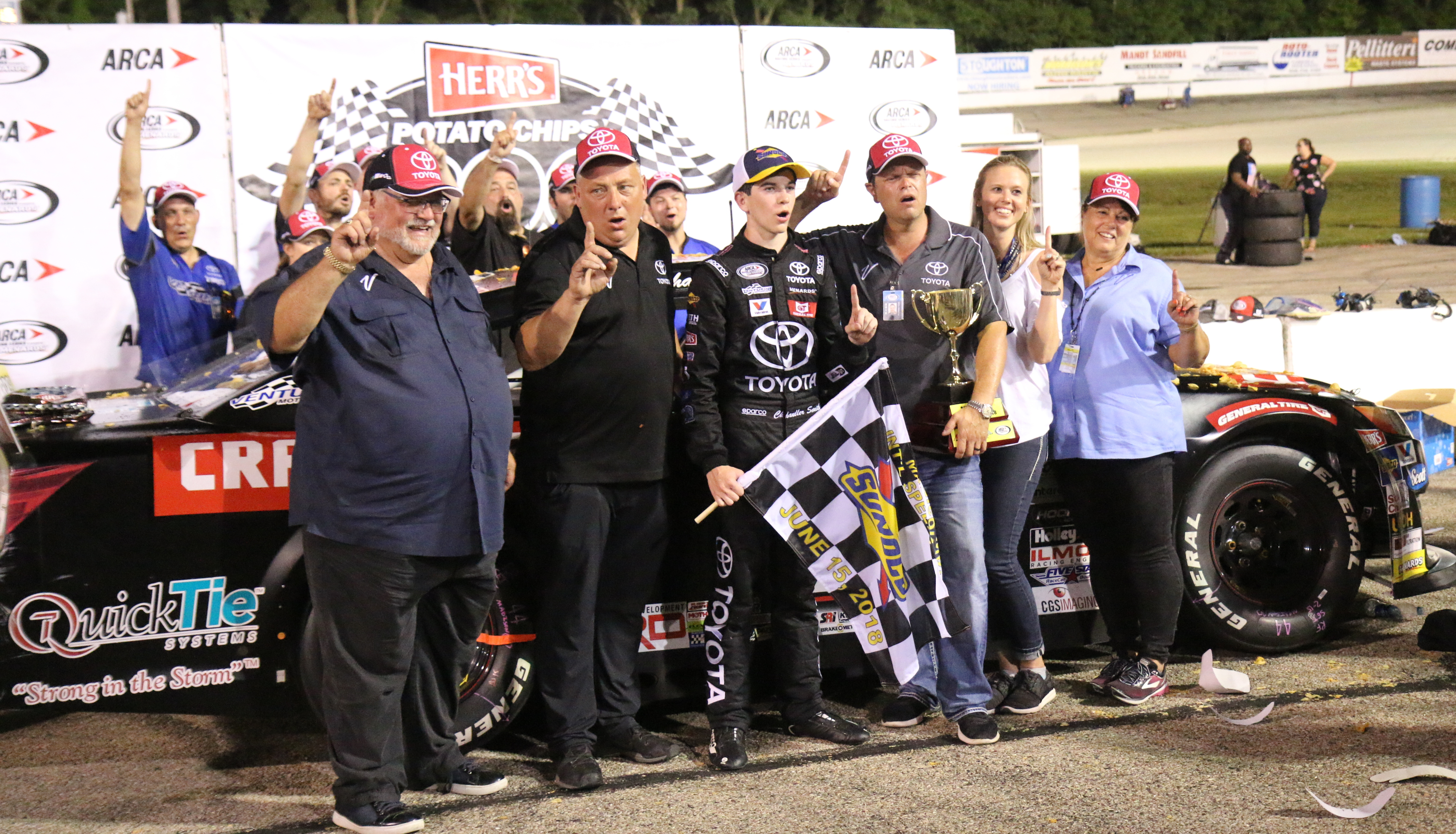 ARCA driver Chandler Smith and his Venturini Motorsports team pose for a photographs in victory lane after winning at Madison International Speedway. Owner Bill Venturini, a former professional driver himself, is standing leftmost on the front row.